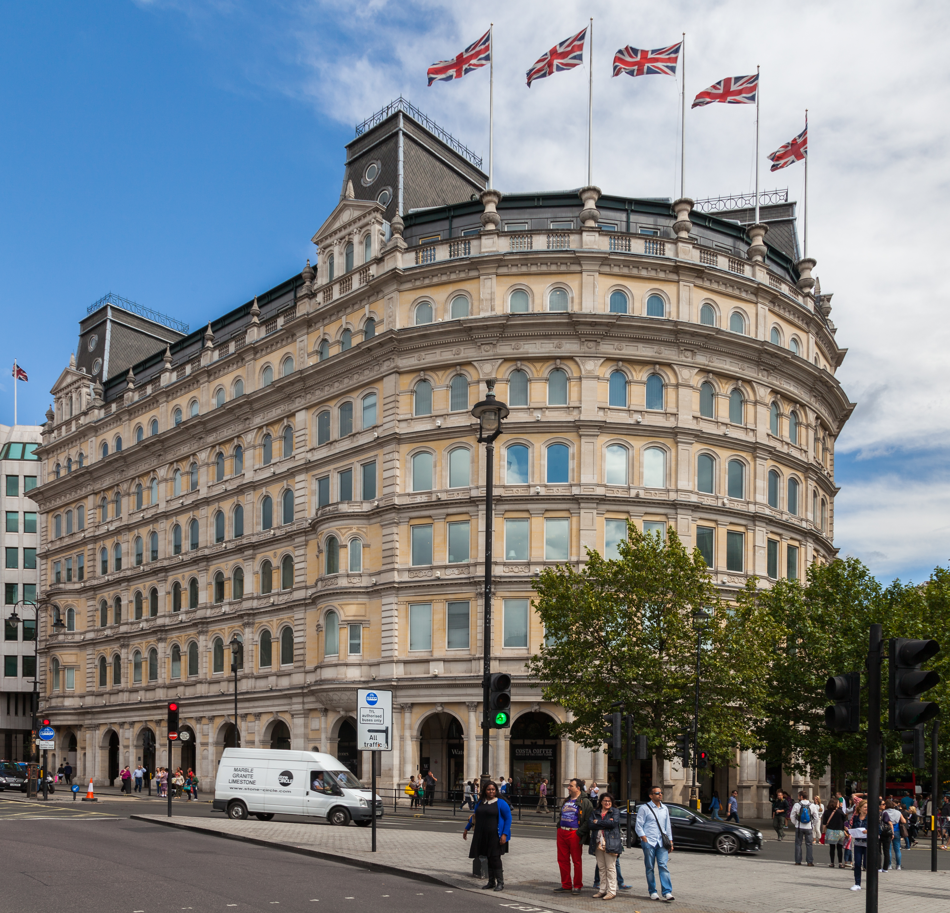 Grand Buildings, London, England